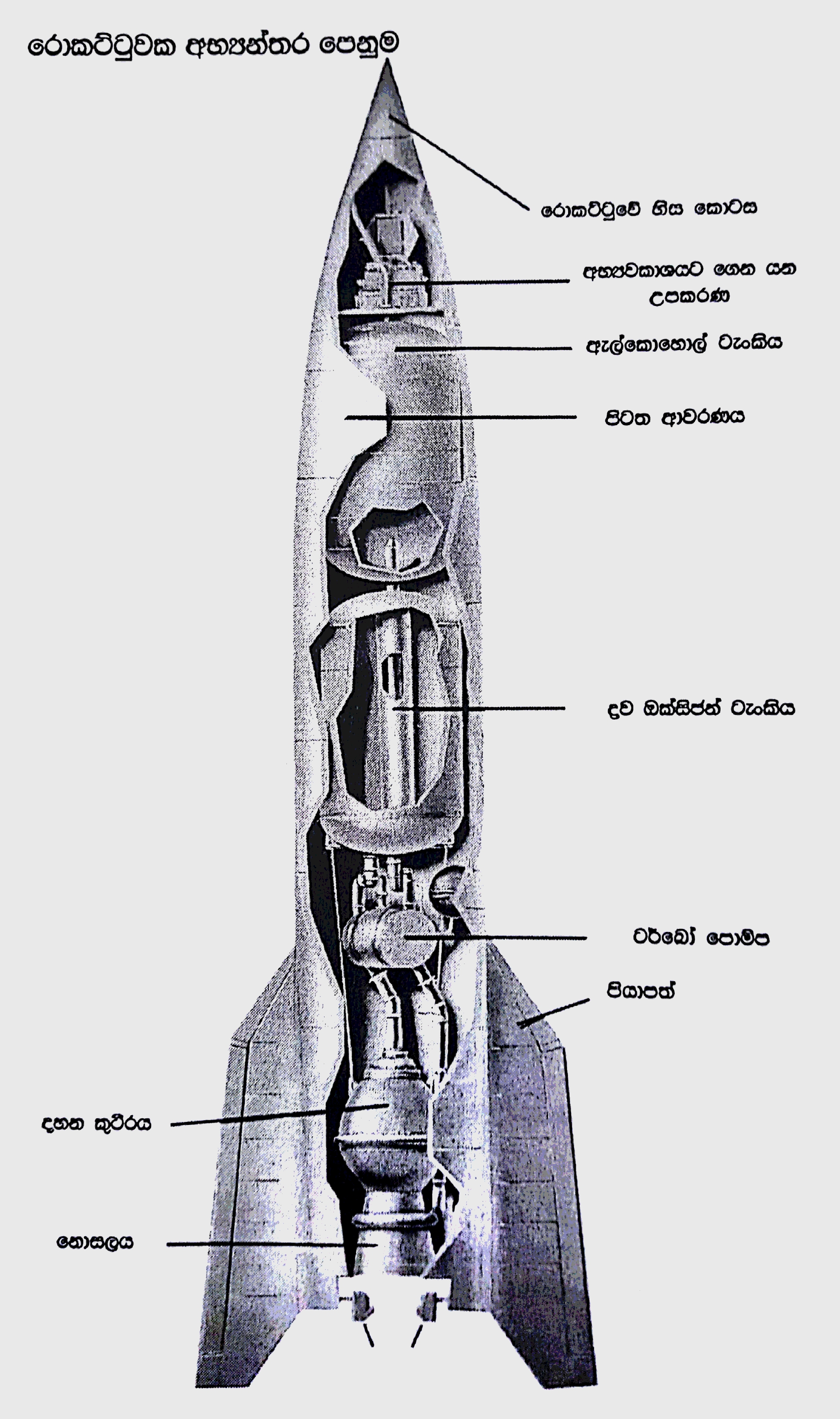 inside of rocket sinhala